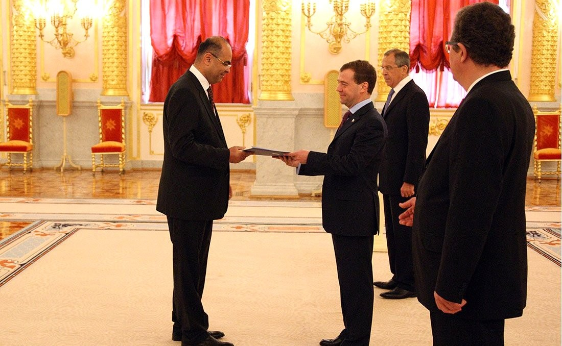 Presentation by foreign ambassadors of their letters of credence. Dmitry Medvedev receives a letter of credence from Ambassador of the Arab Republic of Egypt Mohammed Alaa Eldin A. Shawky Elhadidi.